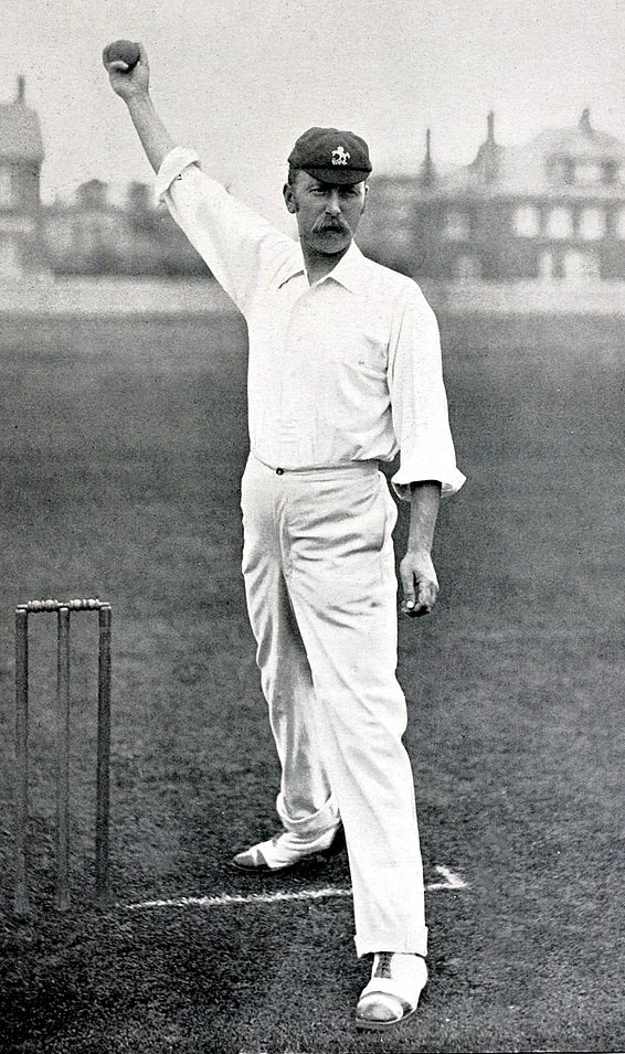 Sport, Cricket, Circa 1895, Walter Hearne of Kent (1887-1896), he was part of a famous cricketing family